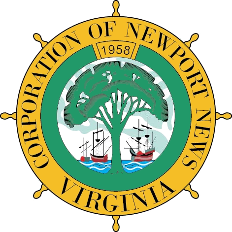 The city seal of Newport News, Virginia. It features an image of a green-colored tree with three sailing ships on an ocean background, surrounded by the words "CORPORATION OF NEWPORT NEWS", "1958", "VIRGINIA". The seal itself appears to be a an early sailing ship's wheel, giving a nod to the city's nautical and maritime history and status as a port city.